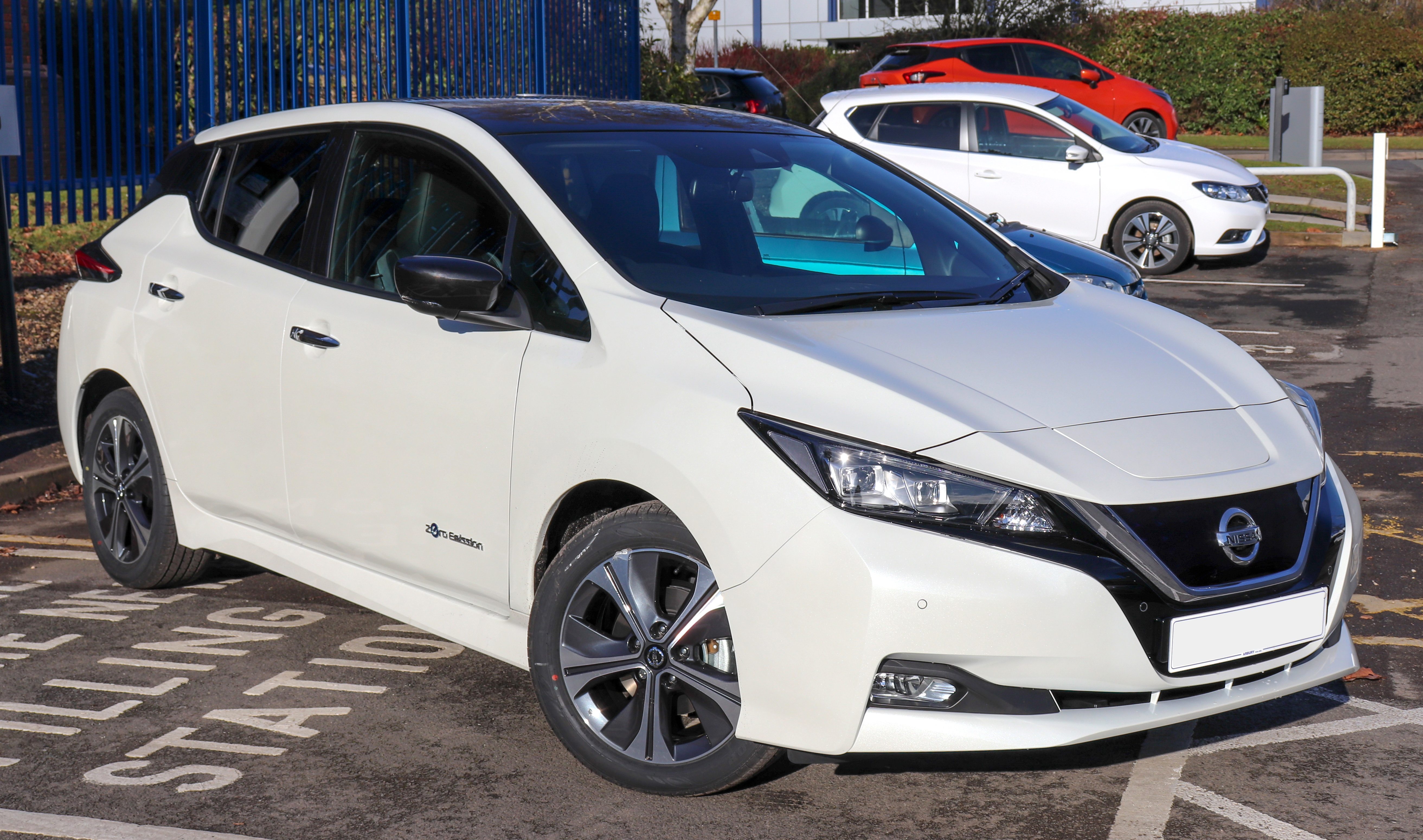 2018 Nissan Leaf Tekna Front.jpg Taken in Arbury Nissan, Leamington Spa